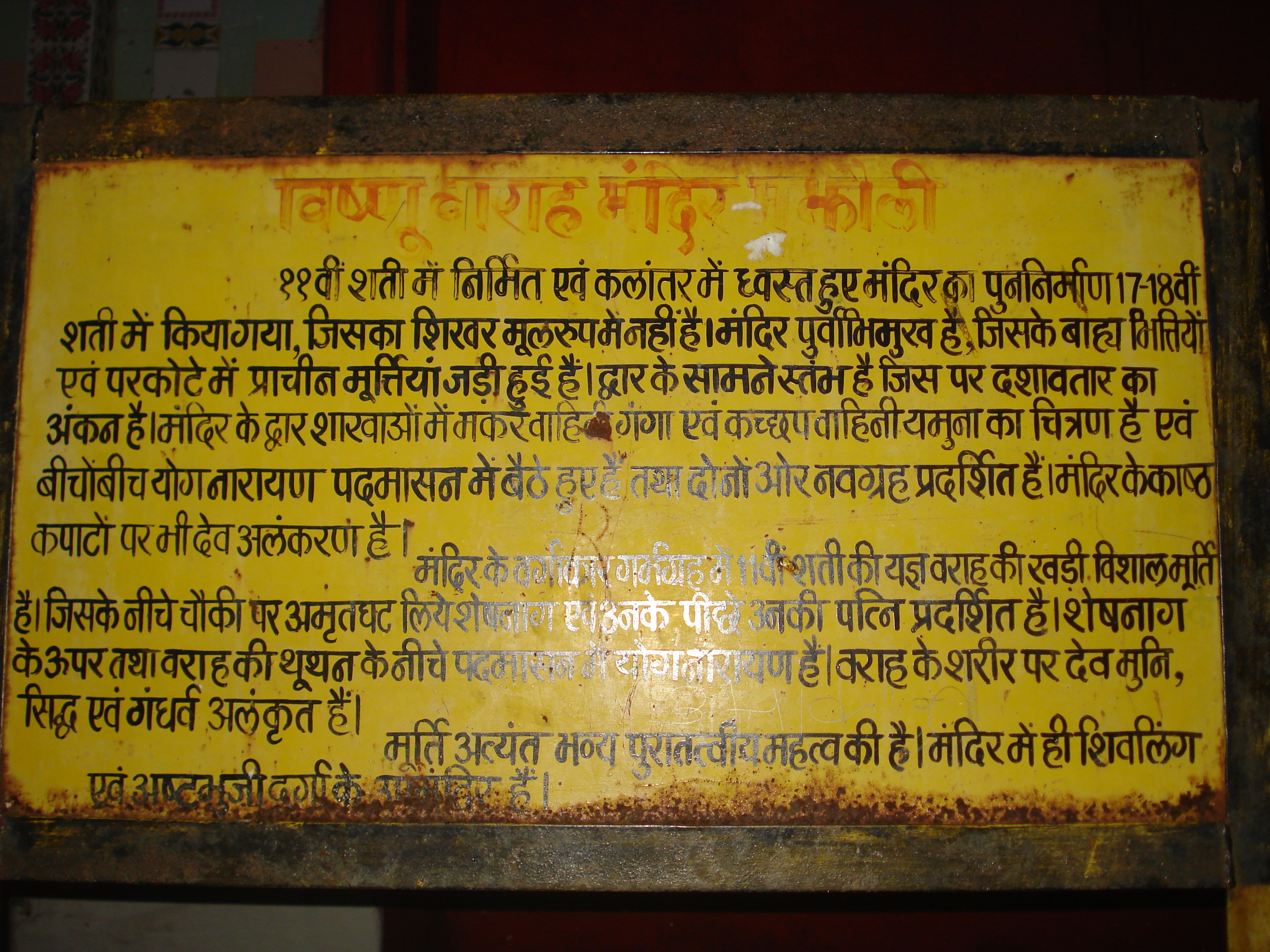 This picture has history of Vishnu-Varaha temple at Majholi. This sign board is inside the temple premises.